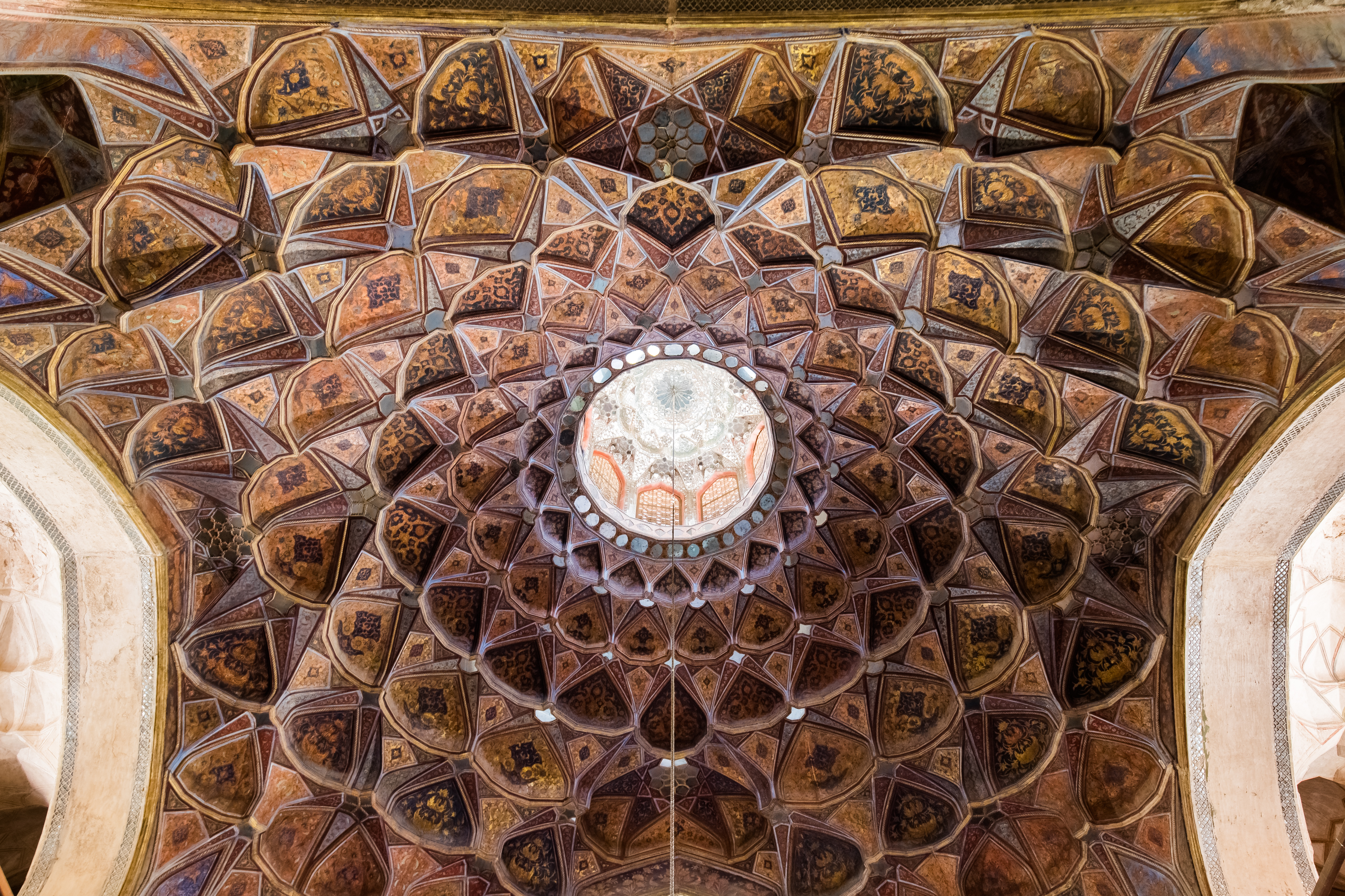 Hasht Behesht Palace, Isfahan, Iran